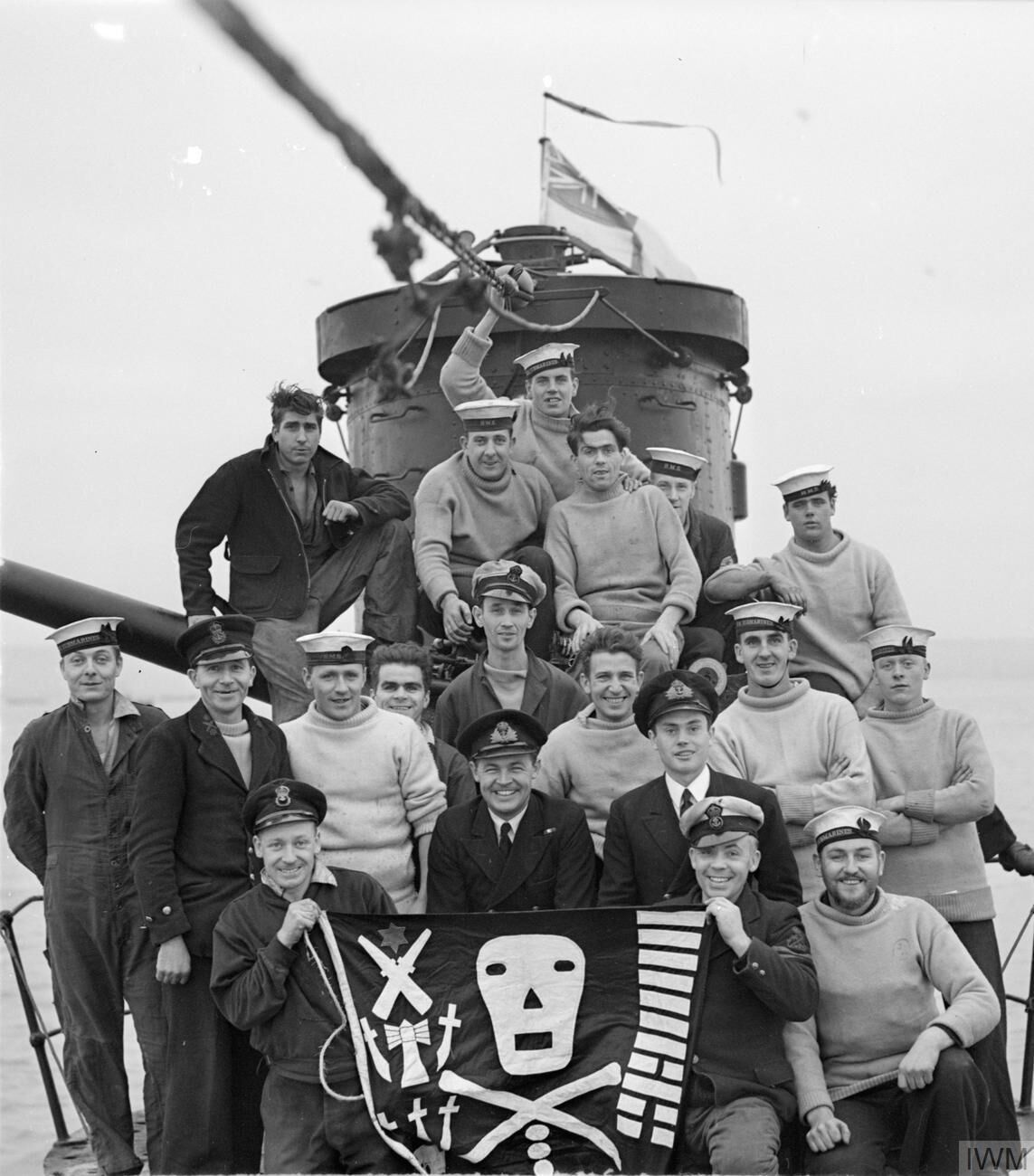 The Commanding Officer, Lieut M L C Crawford, DSC and bar, RN (centre) and the 1st Lieutenant, Lieut R T Sallis, RN, with members of the crew of UNSEEN, display their Jolly Roger.